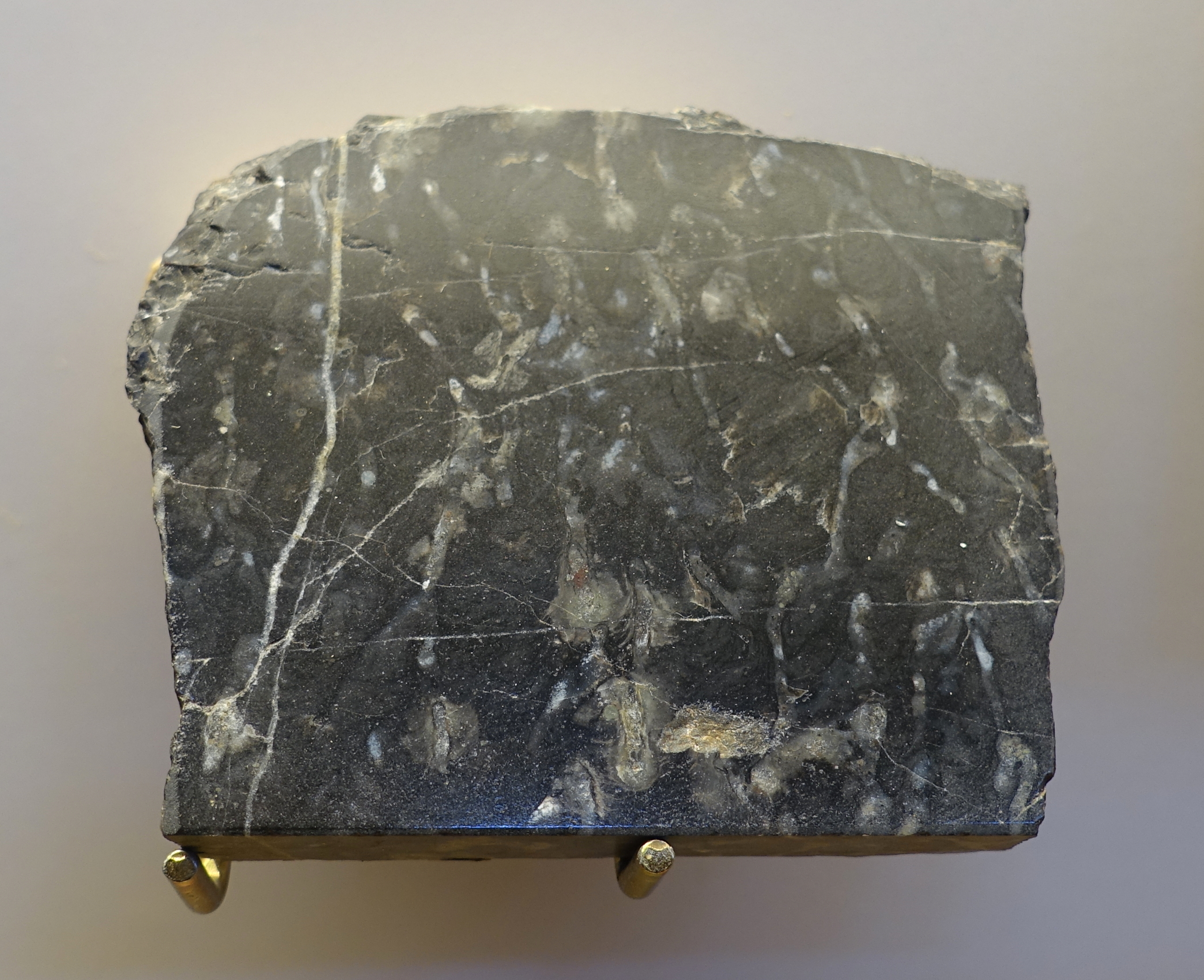 Exhibit in the Redpath Museum, McGill University - Montreal, Quebec, Canada.